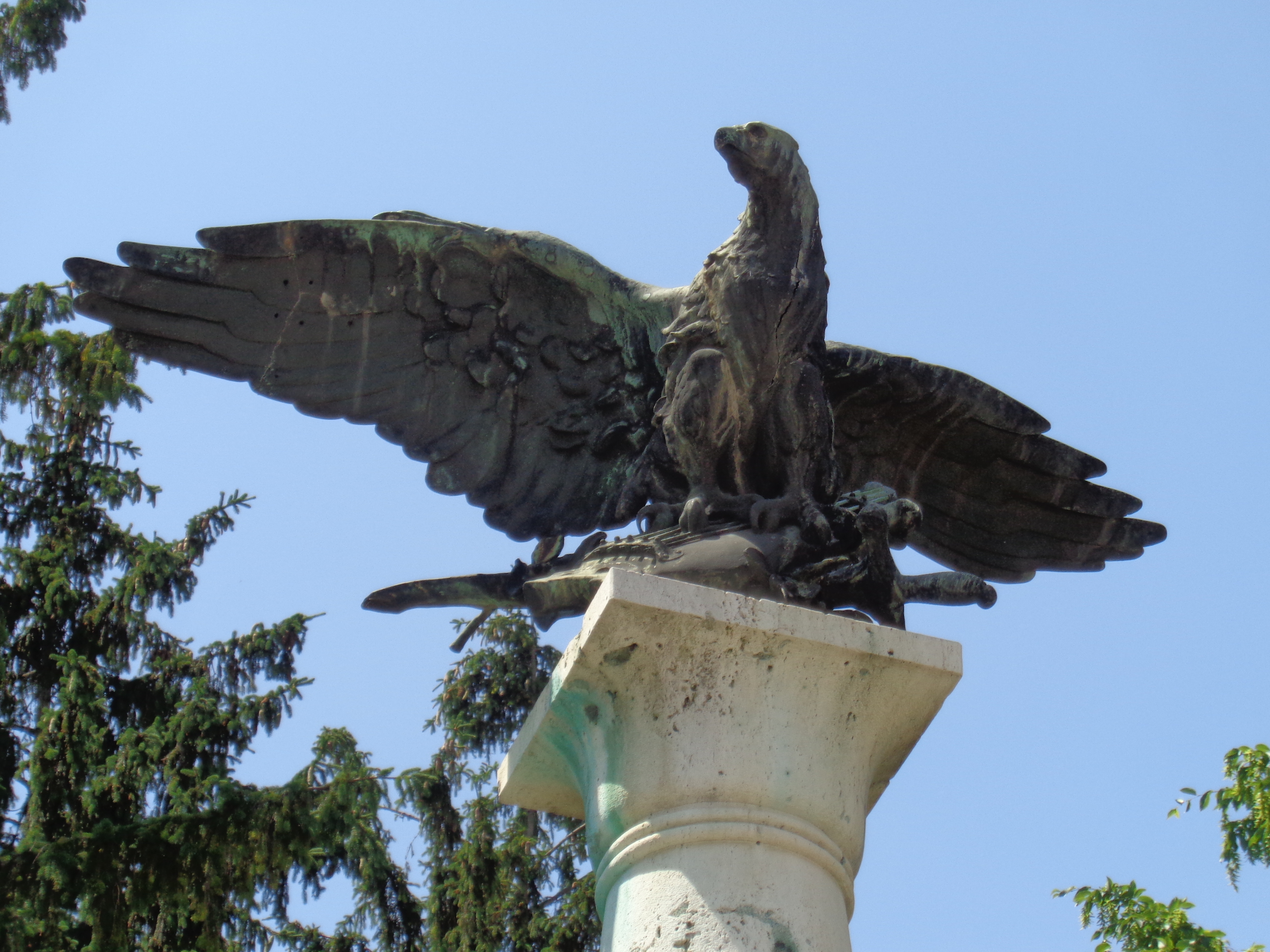 Sculpture of eagle on the Nikola VII Zrinski Column in Čakovec, Croatia